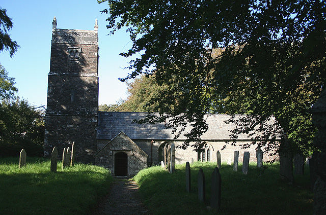 Treneglos: St Gregory’s church Looking north